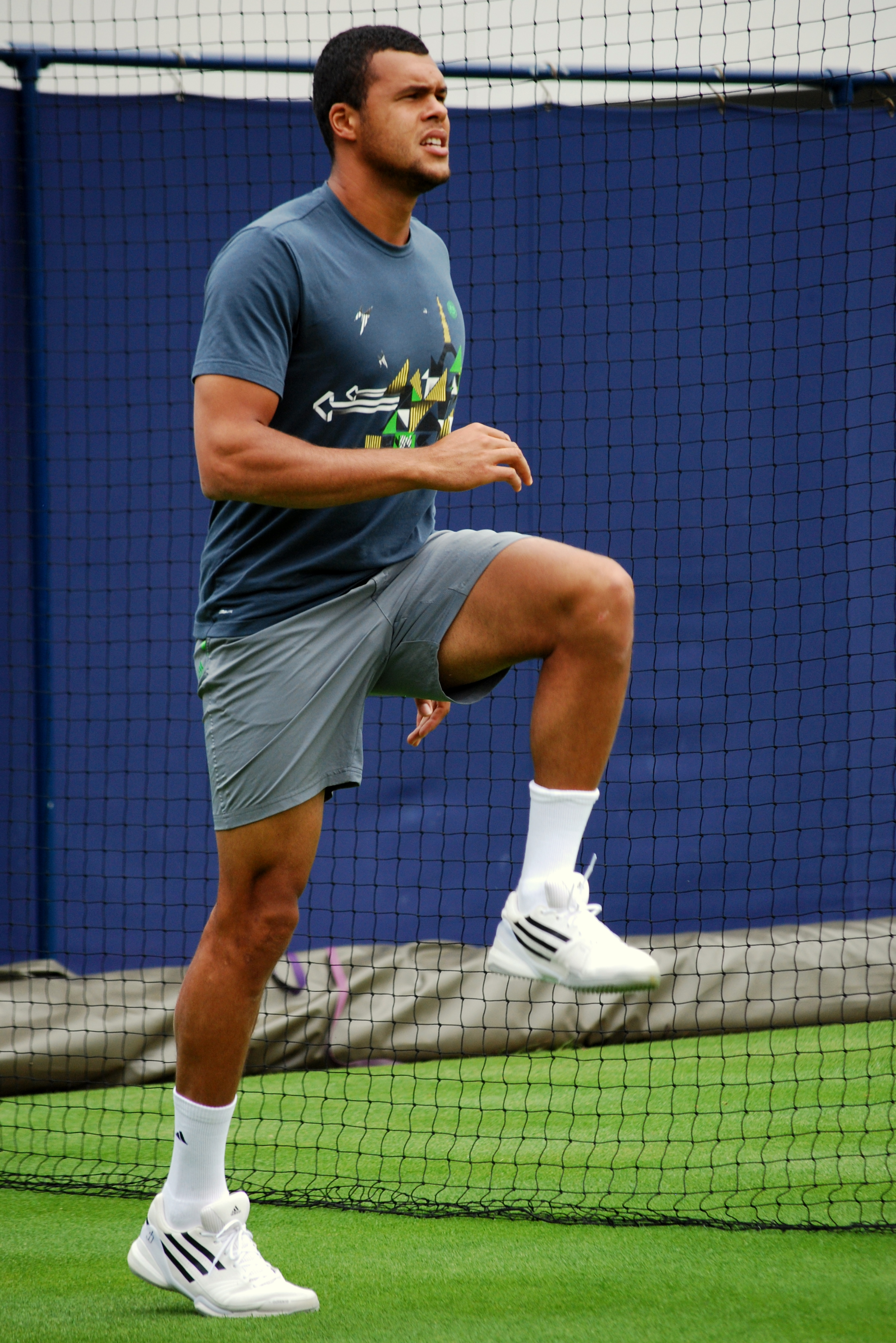 Jo-Wilfried Tsonga warms up for a practice session. Day 1 of the Aegon Championships, Queen's Club 2011.